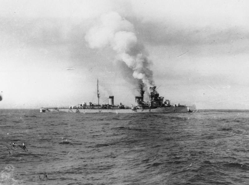 The Sinking of Italian Cruiser Bartolomeo Colleoni by Hmas Sydney, July 1940 The Italian light-cruiser BARTOLOMEO COLLEONI with smoke pouring from her superstructure. She is on fire and her bow has been destroyed after receiving several hits during an encounter with HMAS SYDNEY on 19 July 1940